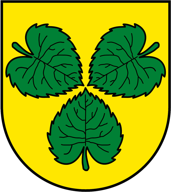 Coat of arms of Finne